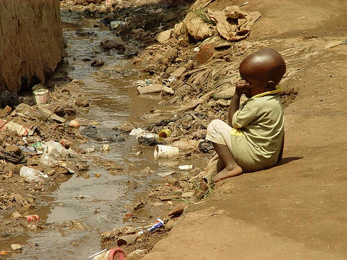 photo by I. Jurga July 2007